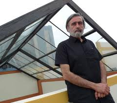 photo Mario Polia's portrait